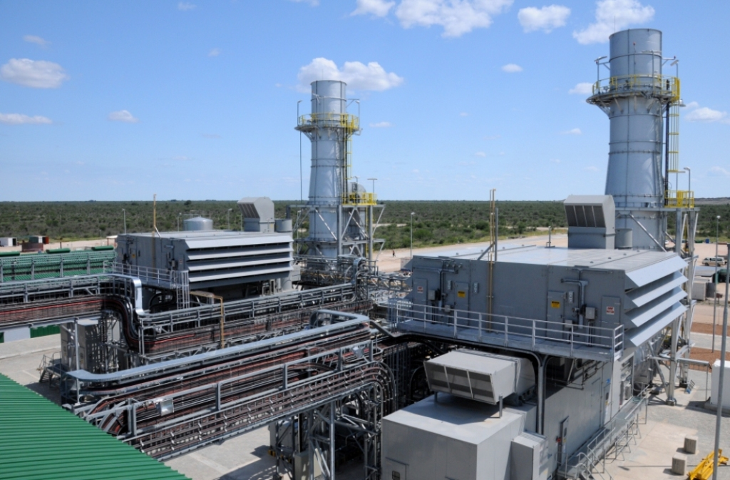 Photo of a gas turbine power plant.